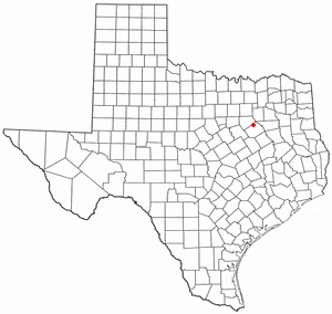 Locater map for Rice, Texas.